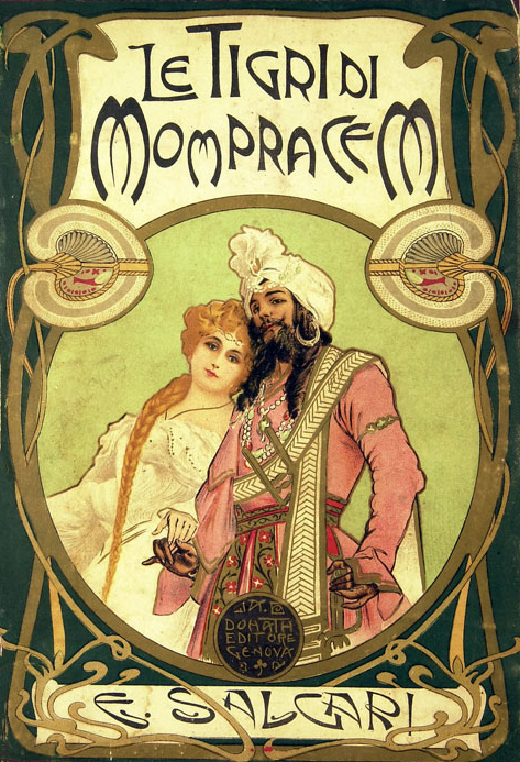 Original cover for Le tigri di Mompracem.